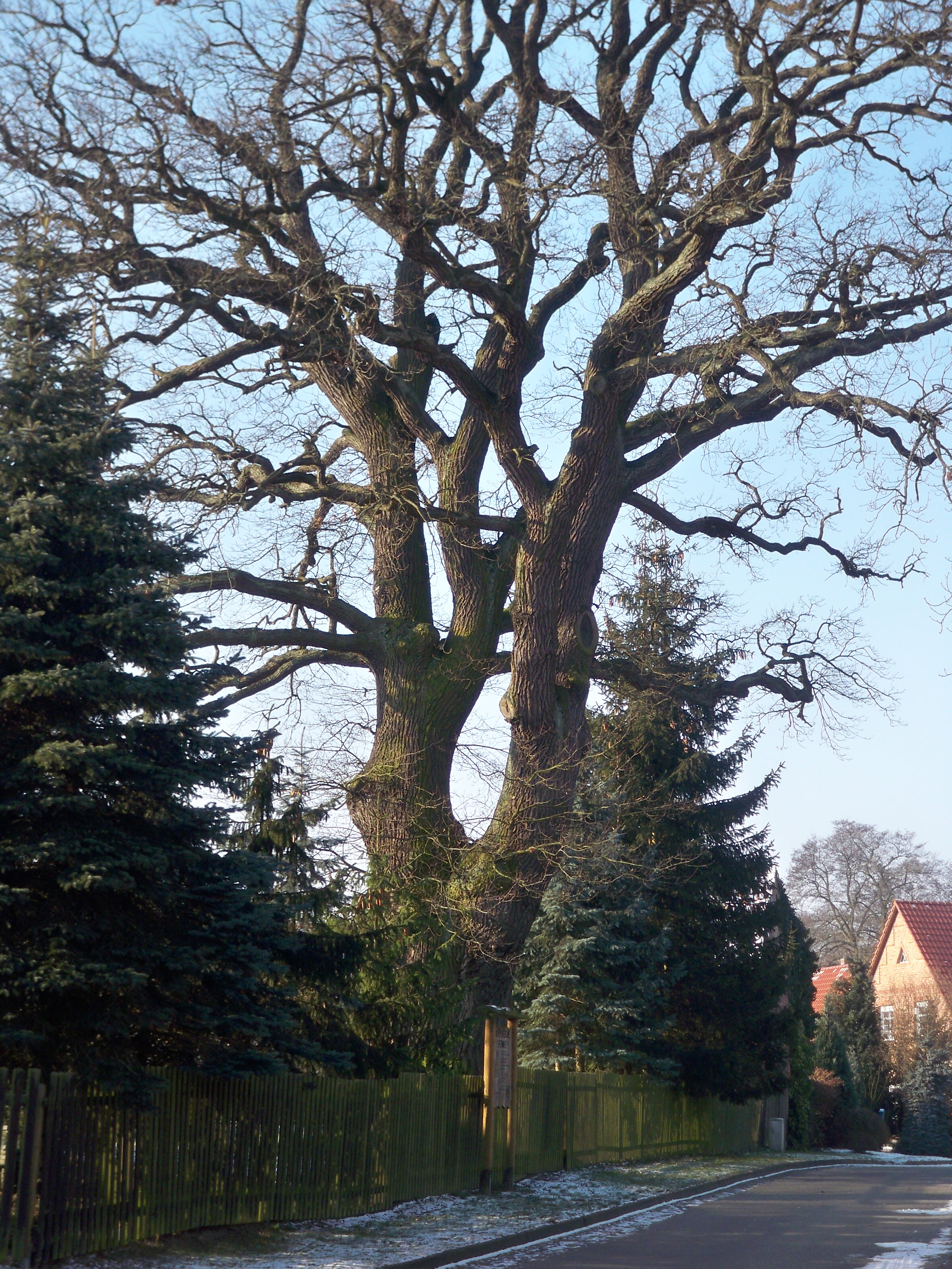 Steimke (Klötze), Saxony-Anhalt, the oaktree depicted in the coat of arms